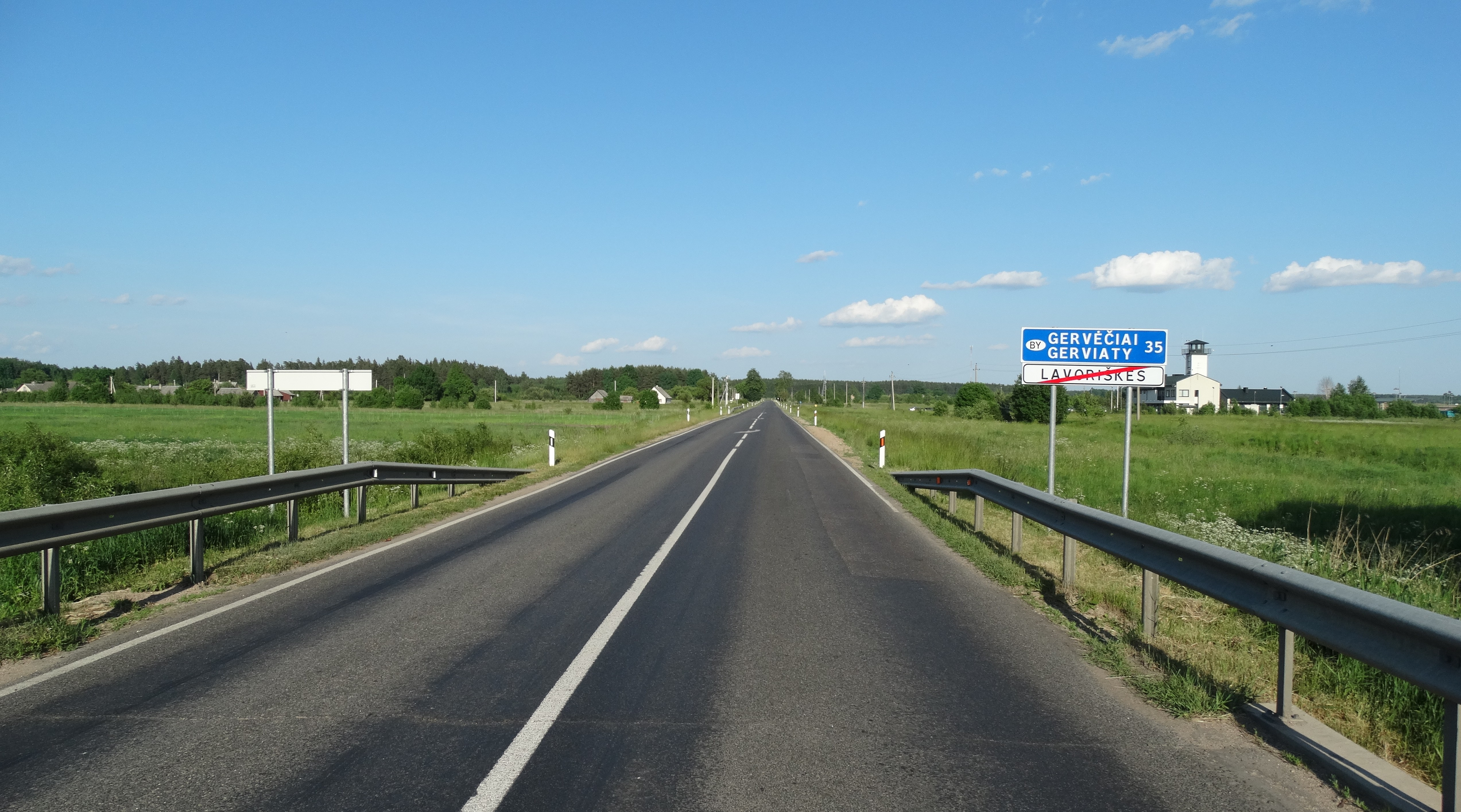 Road 103, Vilnius District, Lithuania